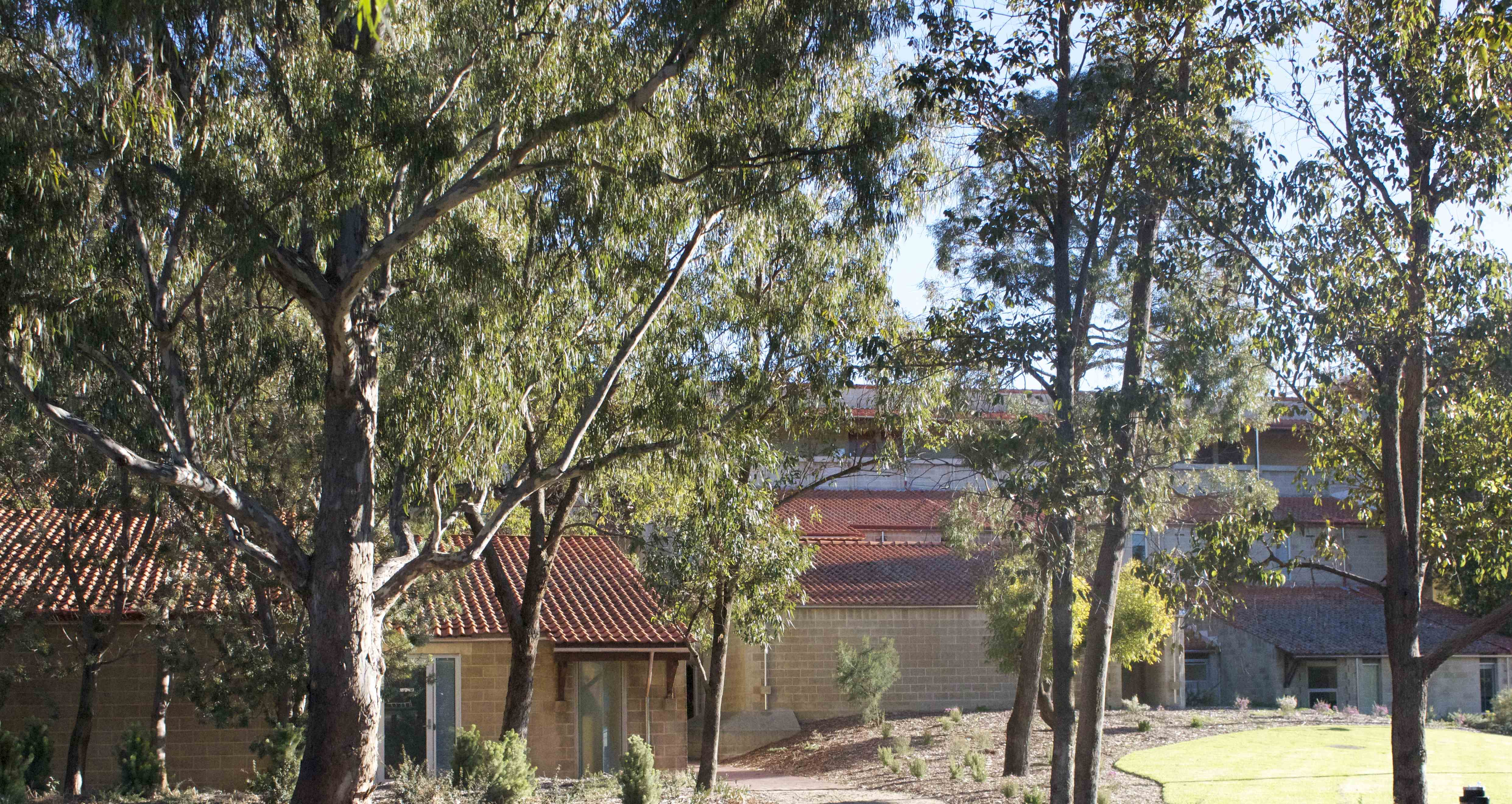 Looking at the UWA School of Music from the East on a winters afternoon in Perth. The architects original desire was to have the buildings blend into the wooded environment.